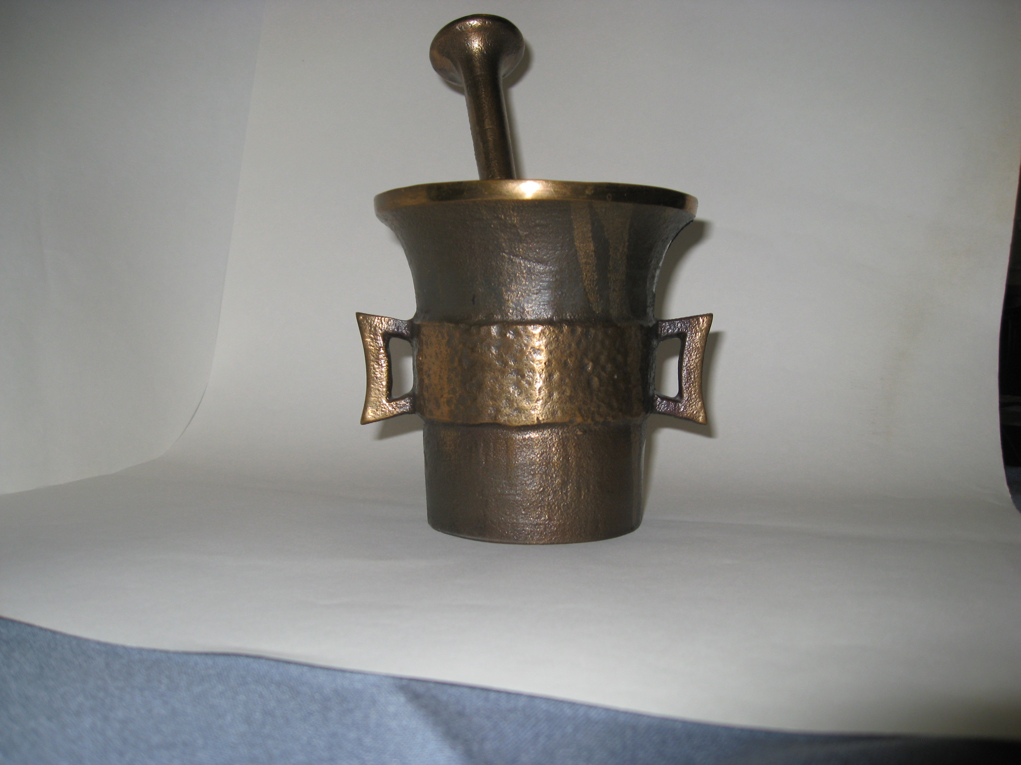 Mortar and pestle as formerly used in pharmacy and household. Produced in bigger quantities and sold in better gift-shops. Sand casting, bronze-type copper-alloy.